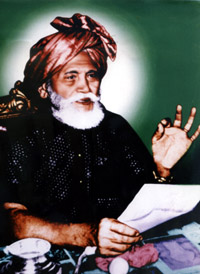 This is the photograph of our Holy Meivazhi Master, obtained from Meivazhi Salai.